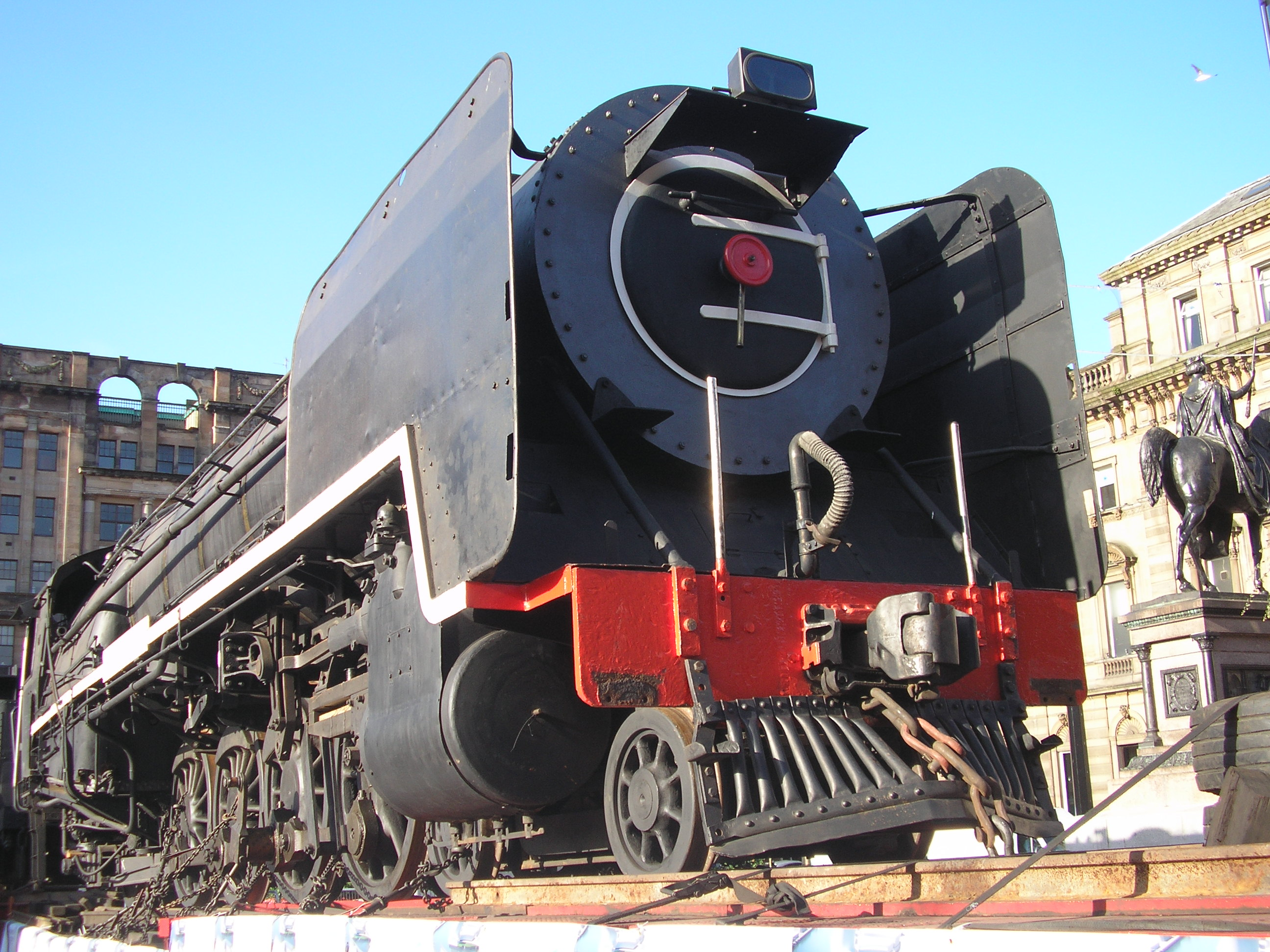 Steam locomotive on display in George Square, promoting the new planned Museum of Transport in Glasgow. 8.30am Sunday 26th August 2007. The 15F class engine – designed and built in Glasgow in 1945 for South Africa’s harsh terrain and vast distances – was used to pull passenger and freight trains until 1988 when it was mothballed. The 15F class was the backbone of the South Africa Railways during the age of steam. The engine and tender once pulled the renowned Blue Train from Johannesburg to Cape Town. The locomotive is widely regarded as one of the finest examples of British engineering, underpinning Glasgow’s then dominant role as a manufacturer of steam engines and representing the pinnacle of more than 100 years of railway technology. It was built by the North British Locomotive Company at Polmadie, Glasgow between 1944-1945.